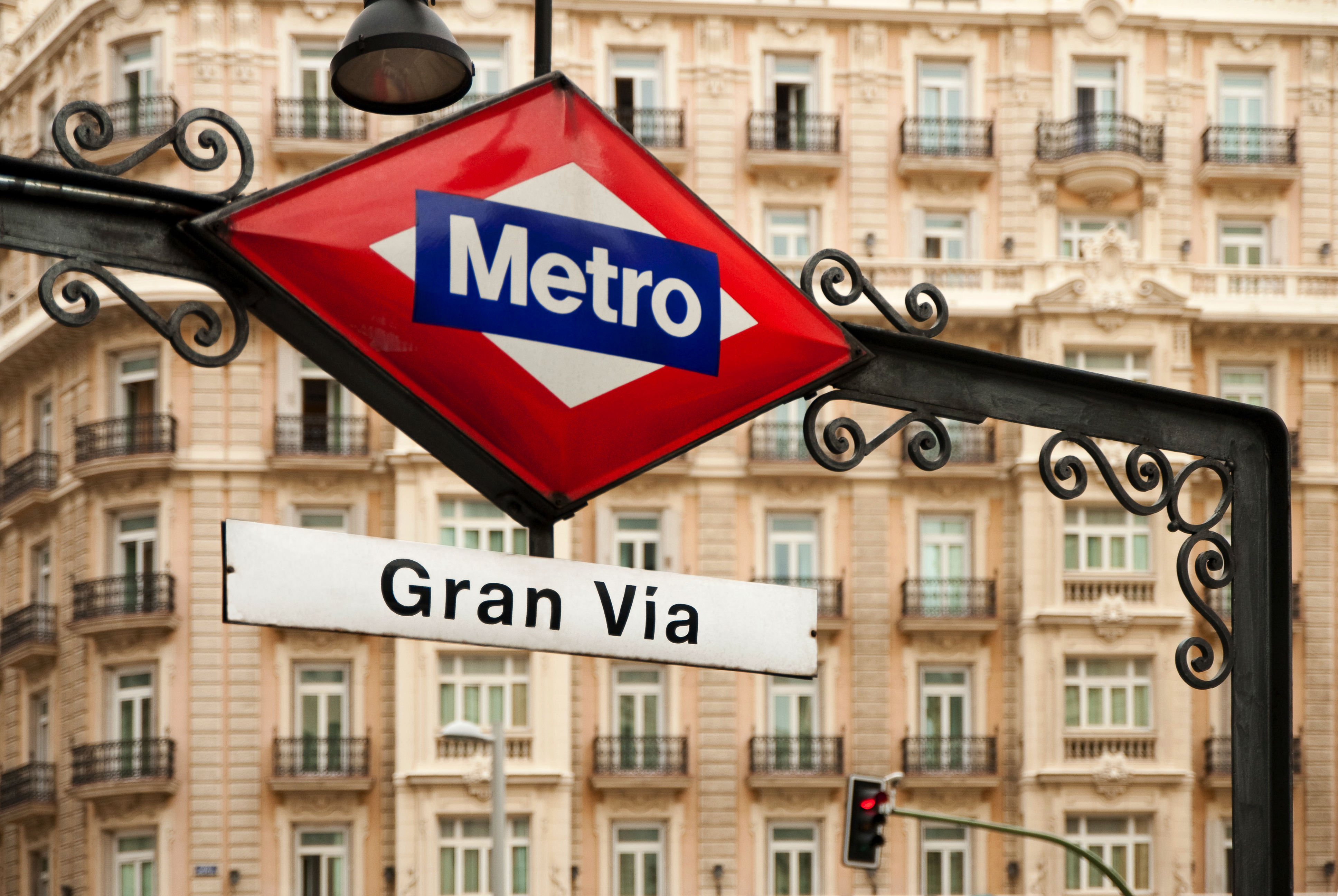 Logo Metro